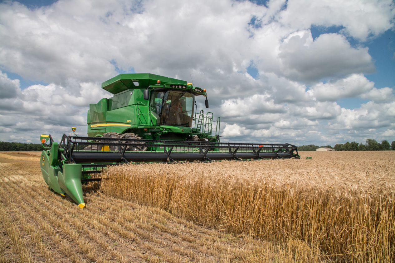 Illinois Farm Bureau is a grassroots, statewide organization dedicated to enhancing the people, progress and pride of Illinois and its farming community.